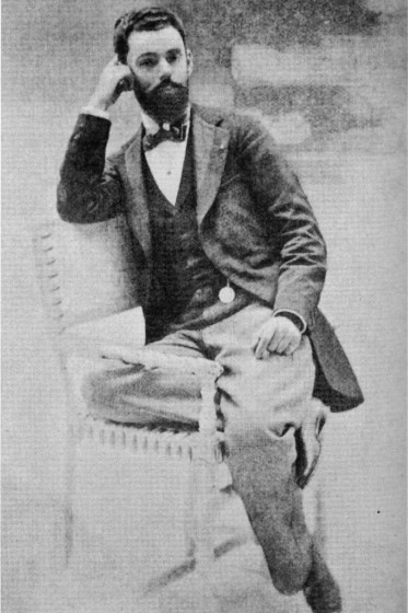 Nicolas Notovitch, the translator of Hemis monastery Buddhist scrolls